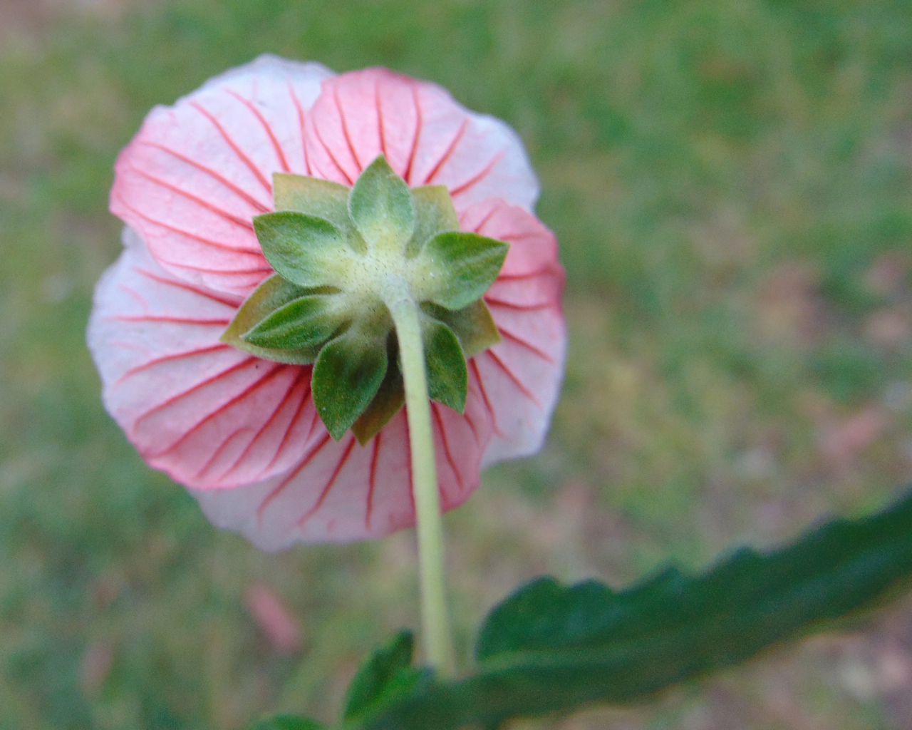 Pheasants Nest, New South Wales